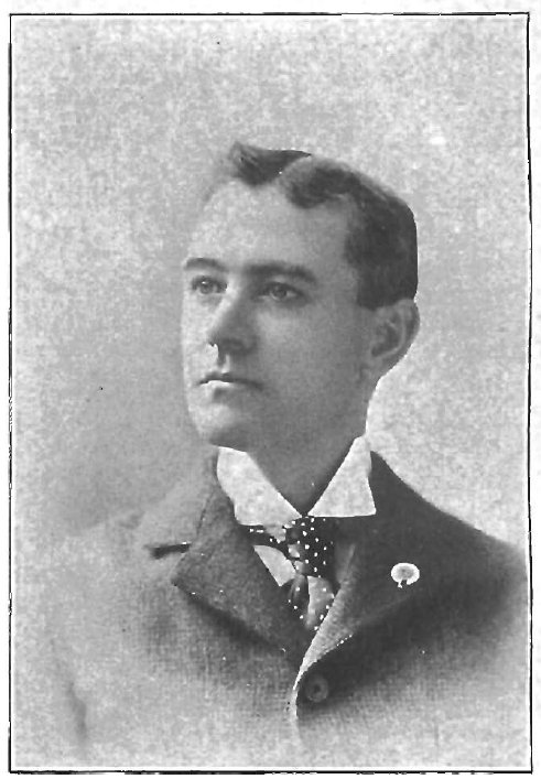 American pioneer recording artist Edward M. Favor